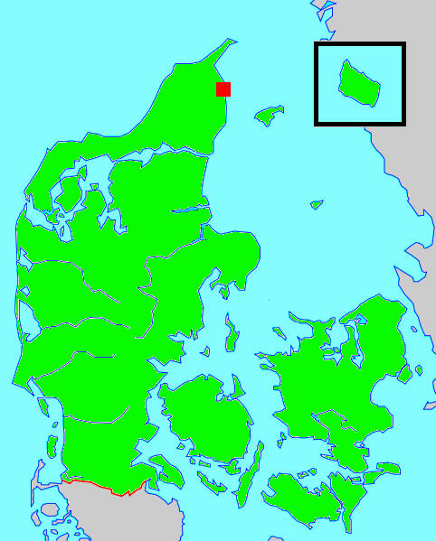 Map of Denmark with the location of the city Frederikshavn.